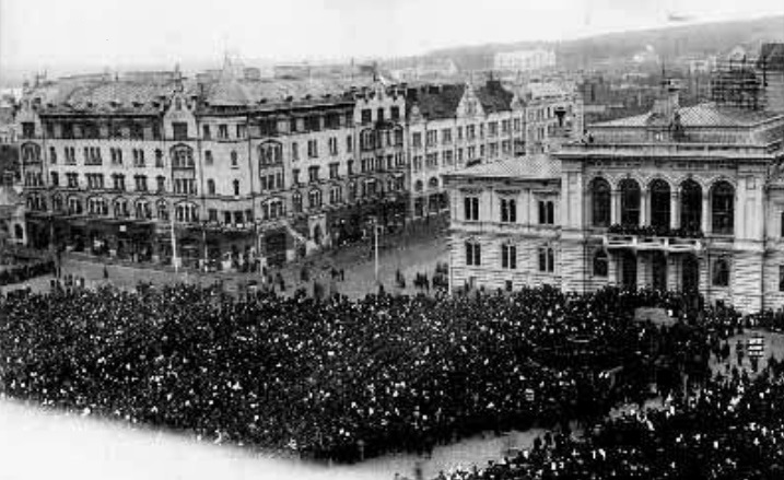 1905 General strike voting in Tampere, Finland. The public has divided in two by their opinion.